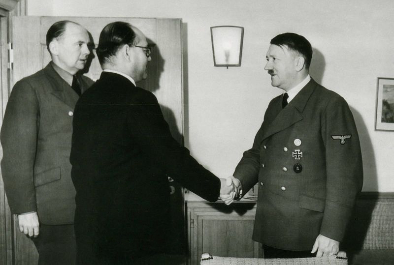 Subhas Chandra Bose meeting Hitler in East Prussia, Germany. Interpreter Paul Schmidt is on the left.